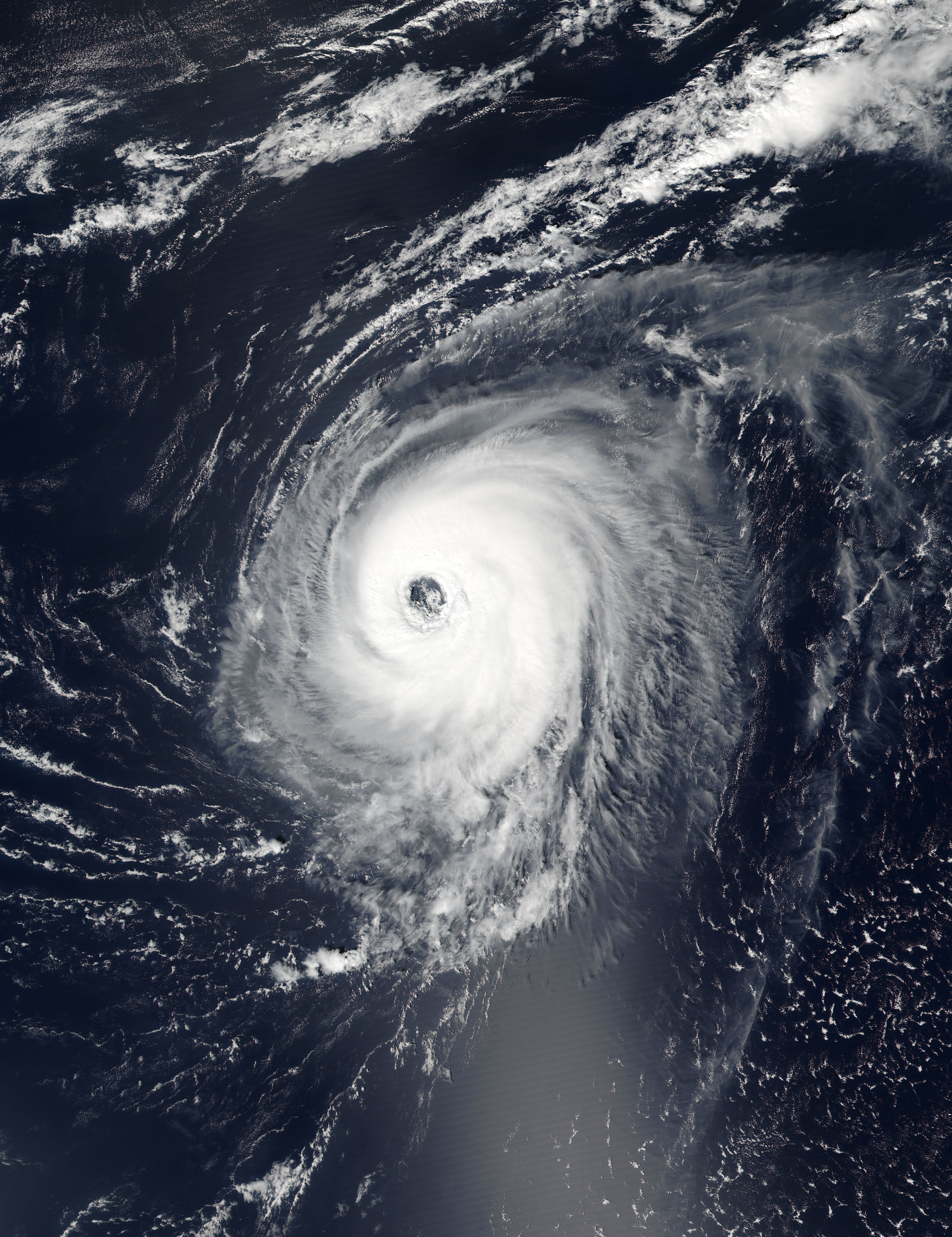 Hurricane Gaston (07L) in the central Atlantic Ocean